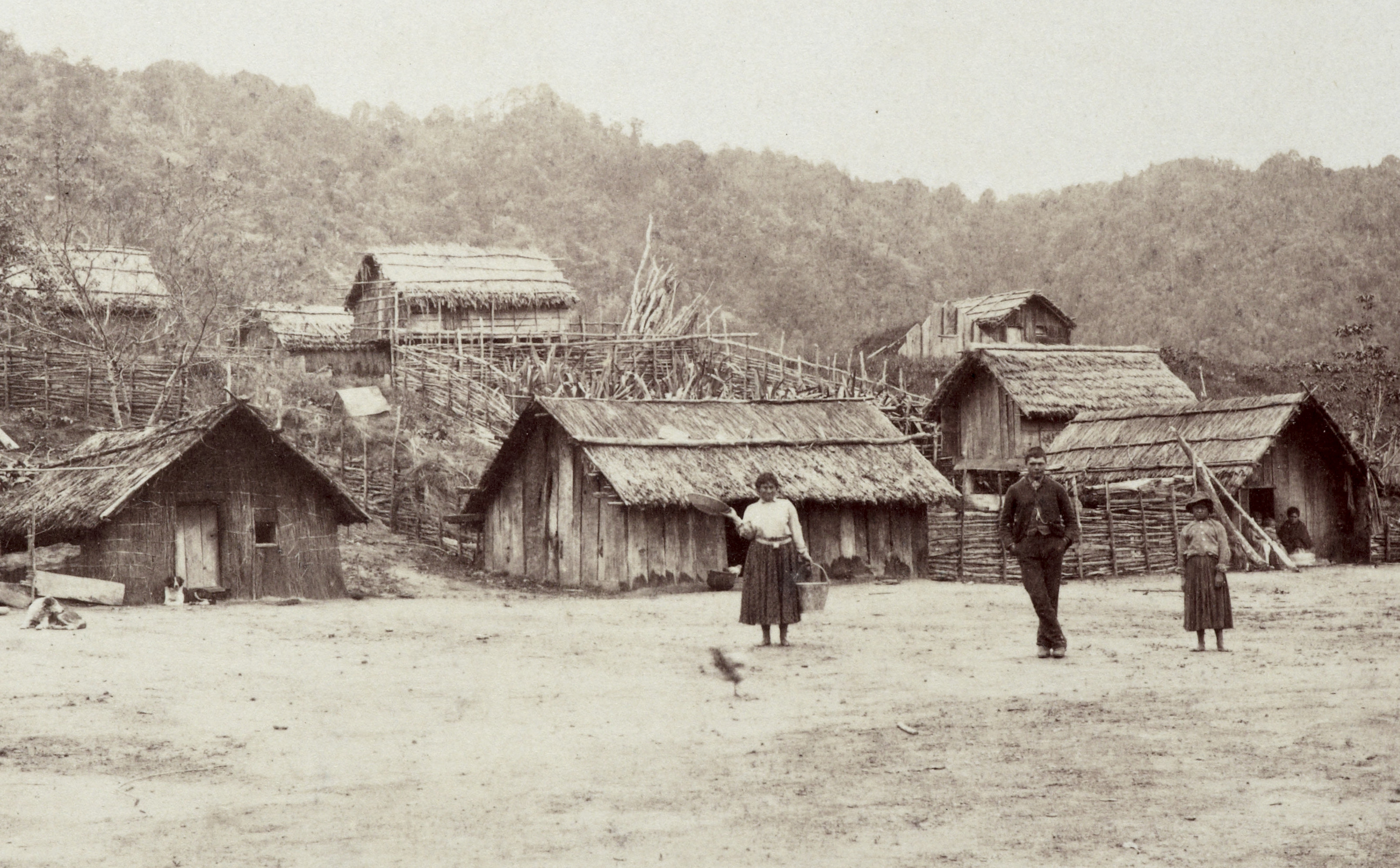 Ātene (Athens), a village on the Whanganui River, New Zealand. Photo by Wrigglesworth and Binns Studio, Wellington. Te Papa (O.006860)